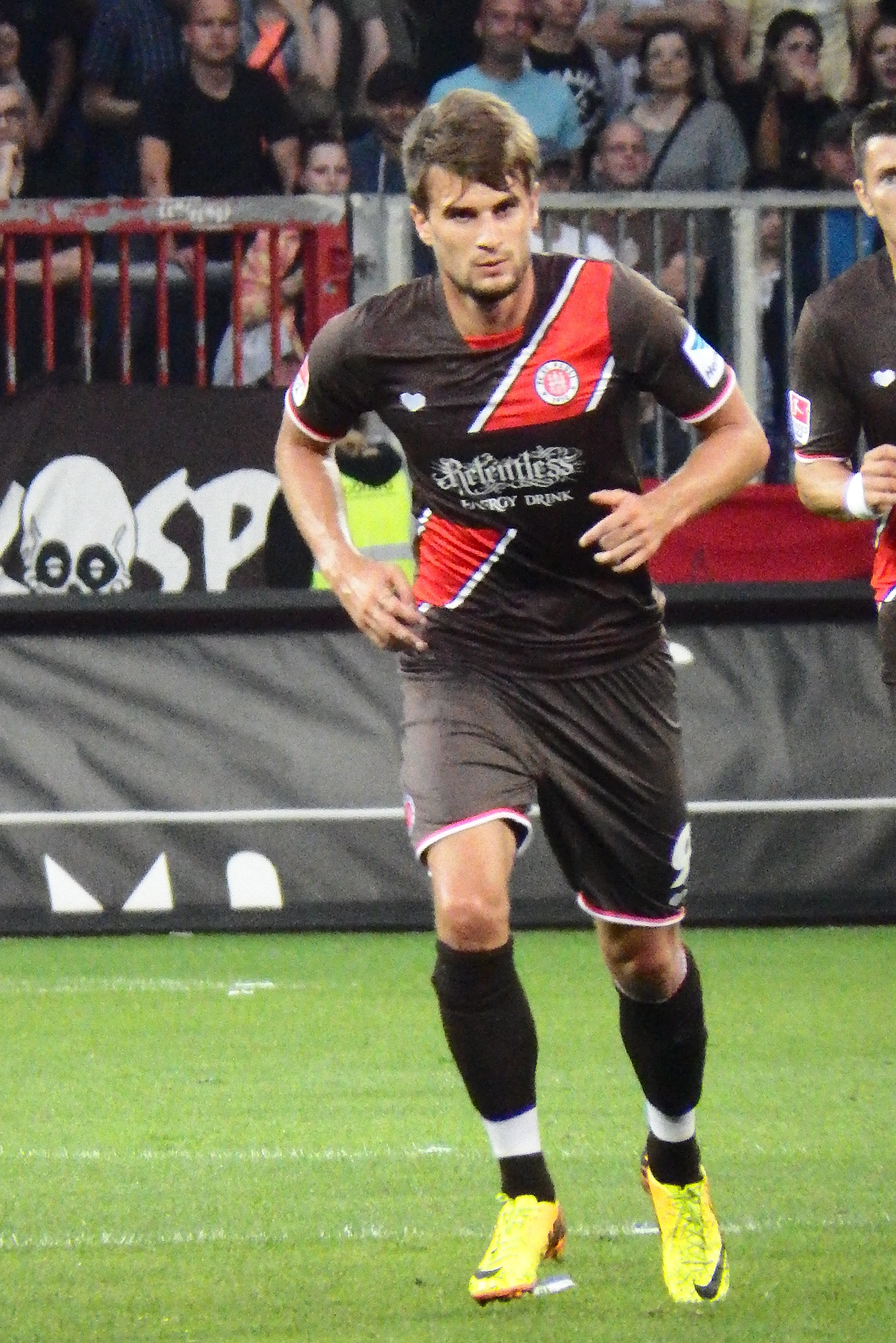 Christopher Nöthe as Player of the FC St.Pauli